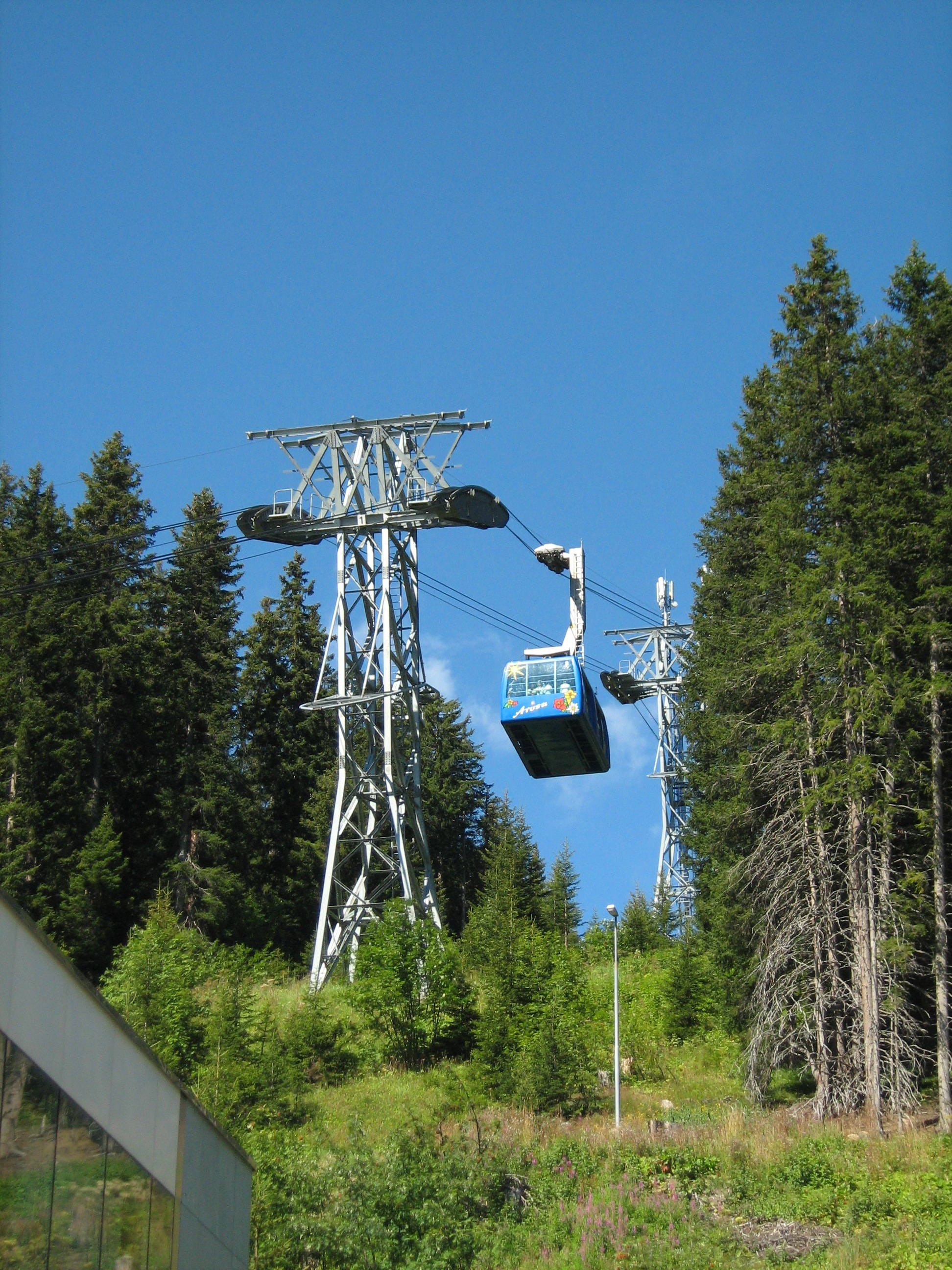 Arosa - Weisshorn Cableway, Arosa, Graubünden, Switzerland. August 17, 2012.